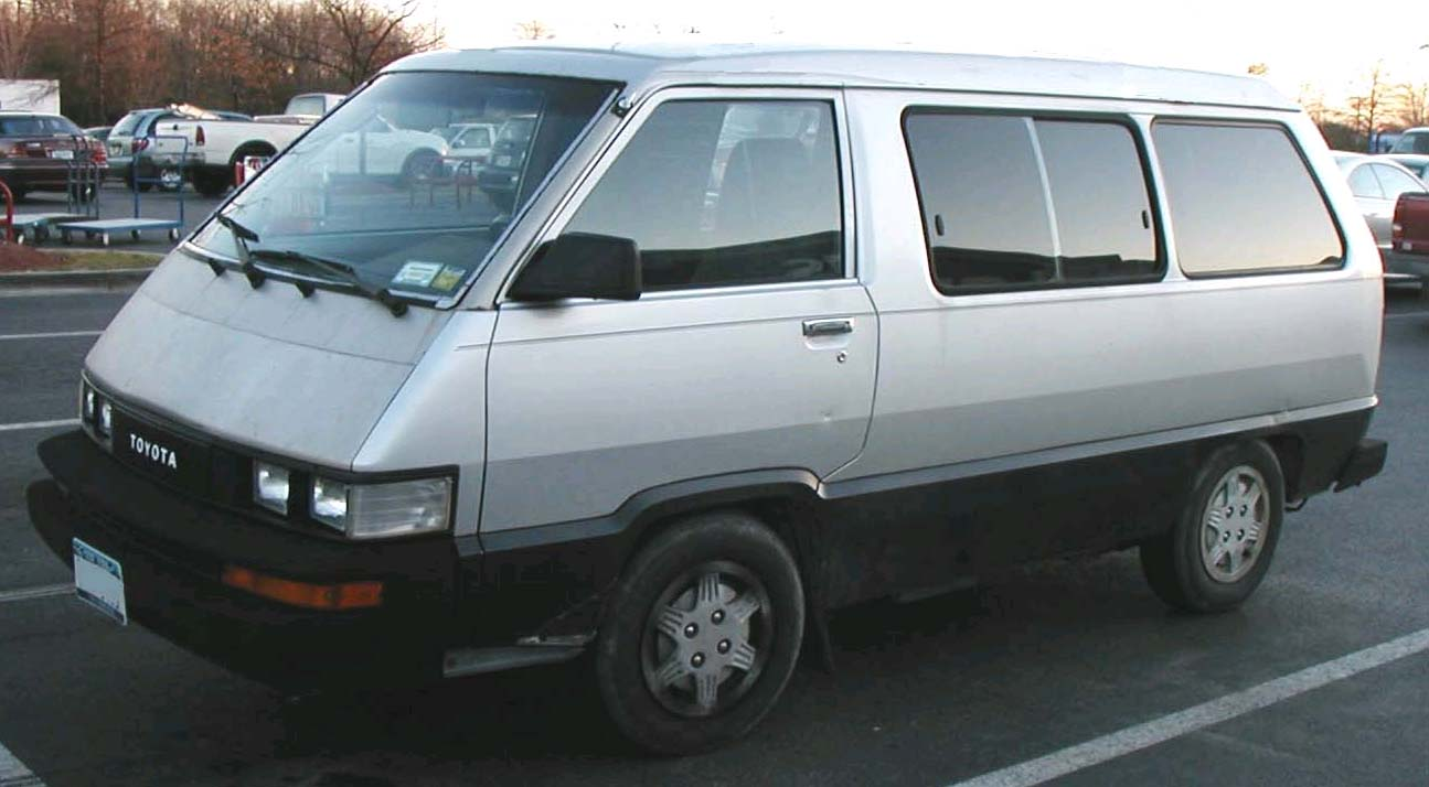 1984-1989 Toyota Van photographed in Waldorf, Maryland, USA.